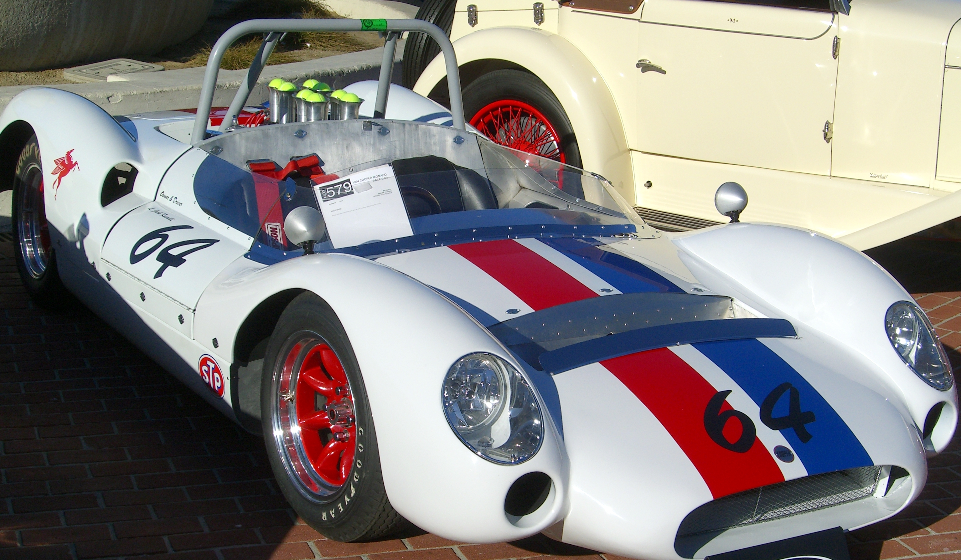 Chevrolet-powered 1964 Cooper Monaco